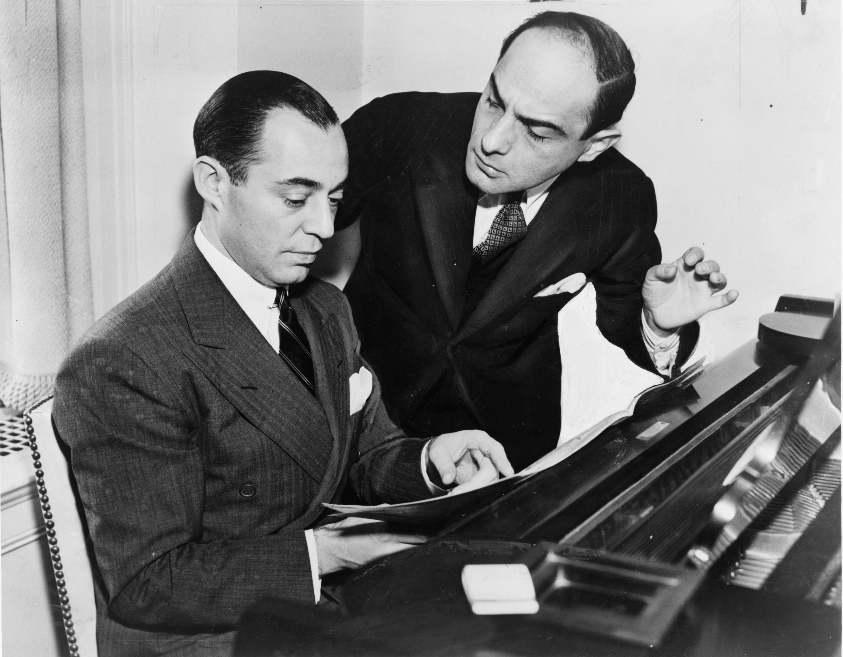 Rodgers and Hart - Richard Rodgers seated at piano with Lorenz Hart on right